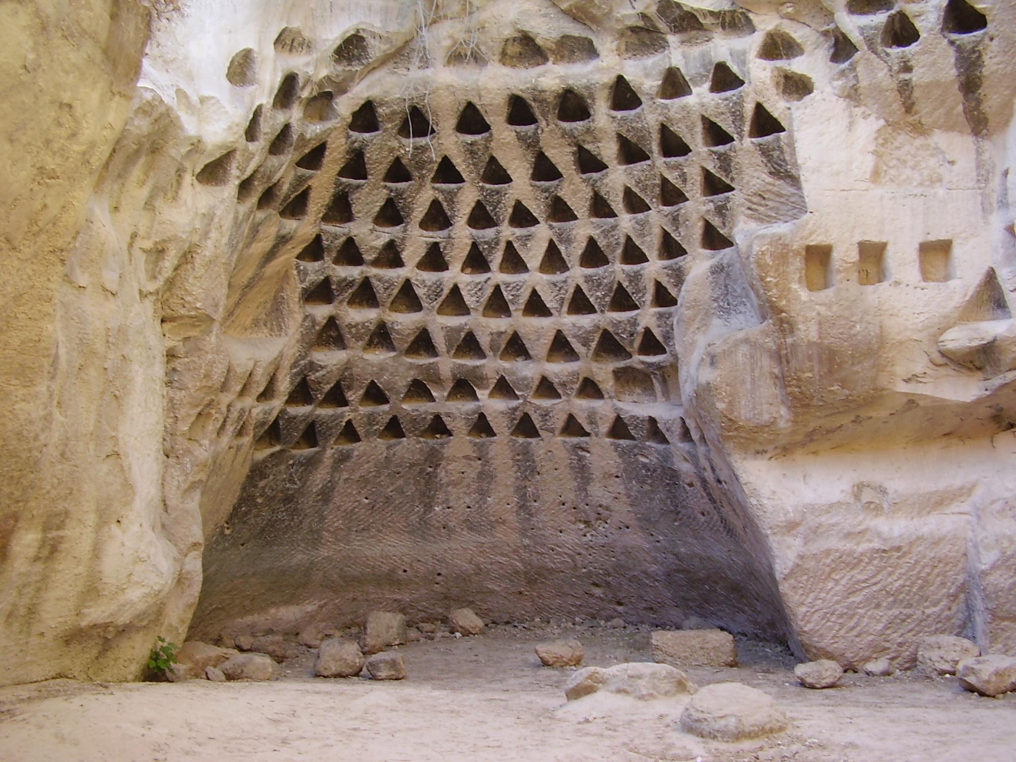 Archeological sites of Israel